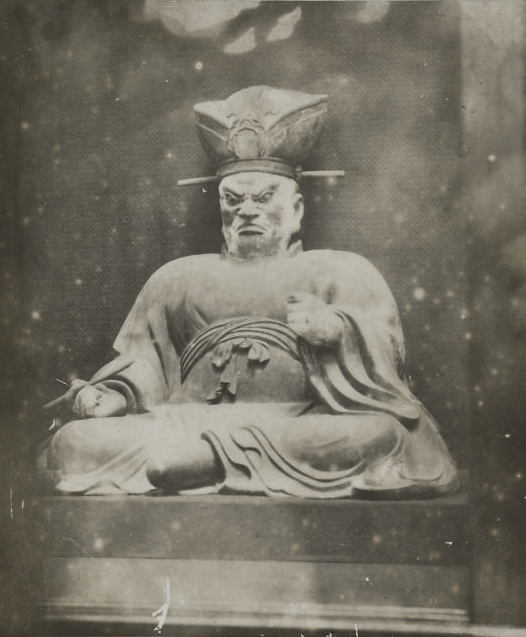 Taizan-ō, by Kōen, Byakugōji, Nara, Nara, Japan; repaired in 1498